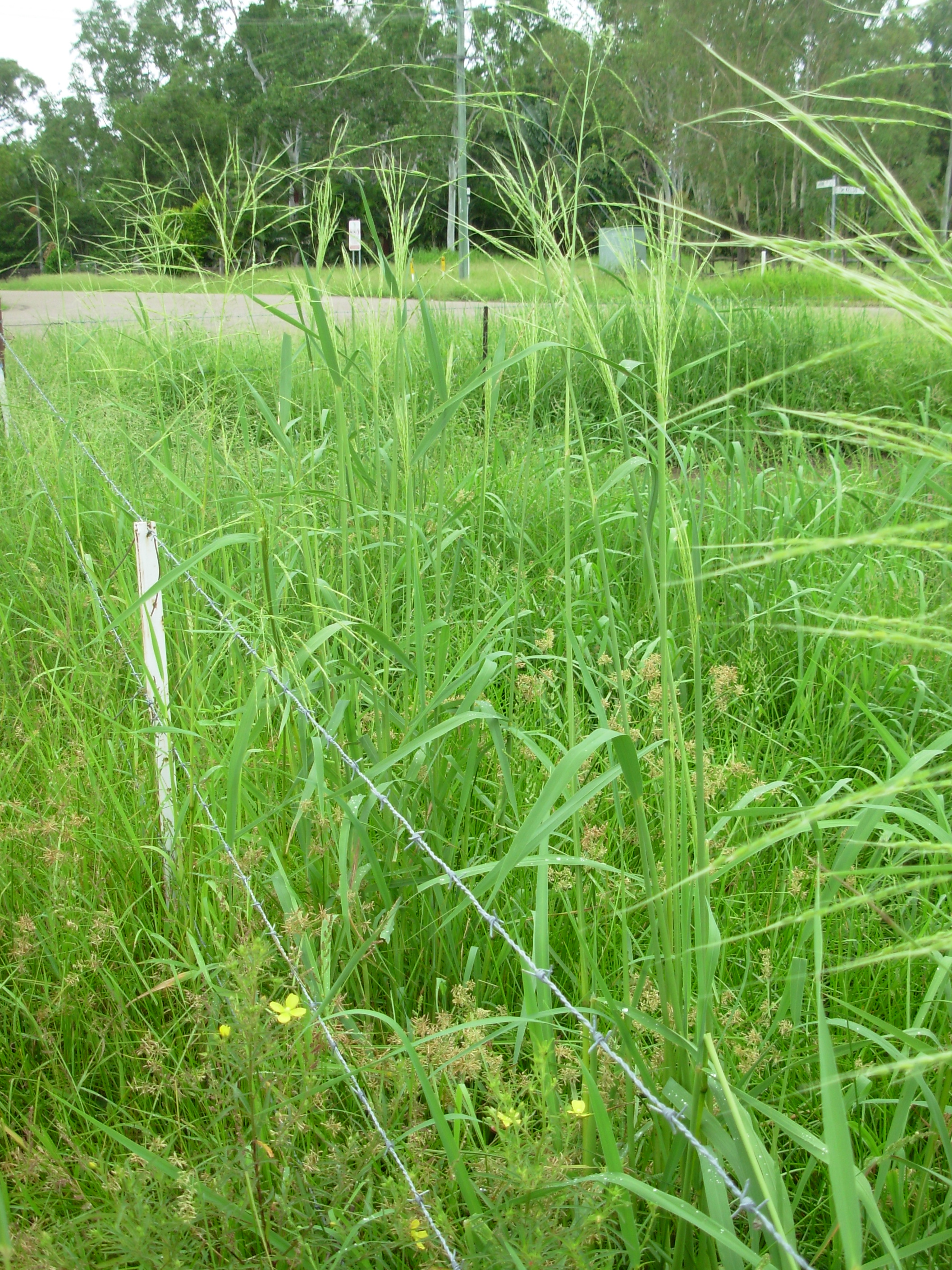 Wild rice (Oryza australensis) growing wild near Townsville. Chris Gardiner